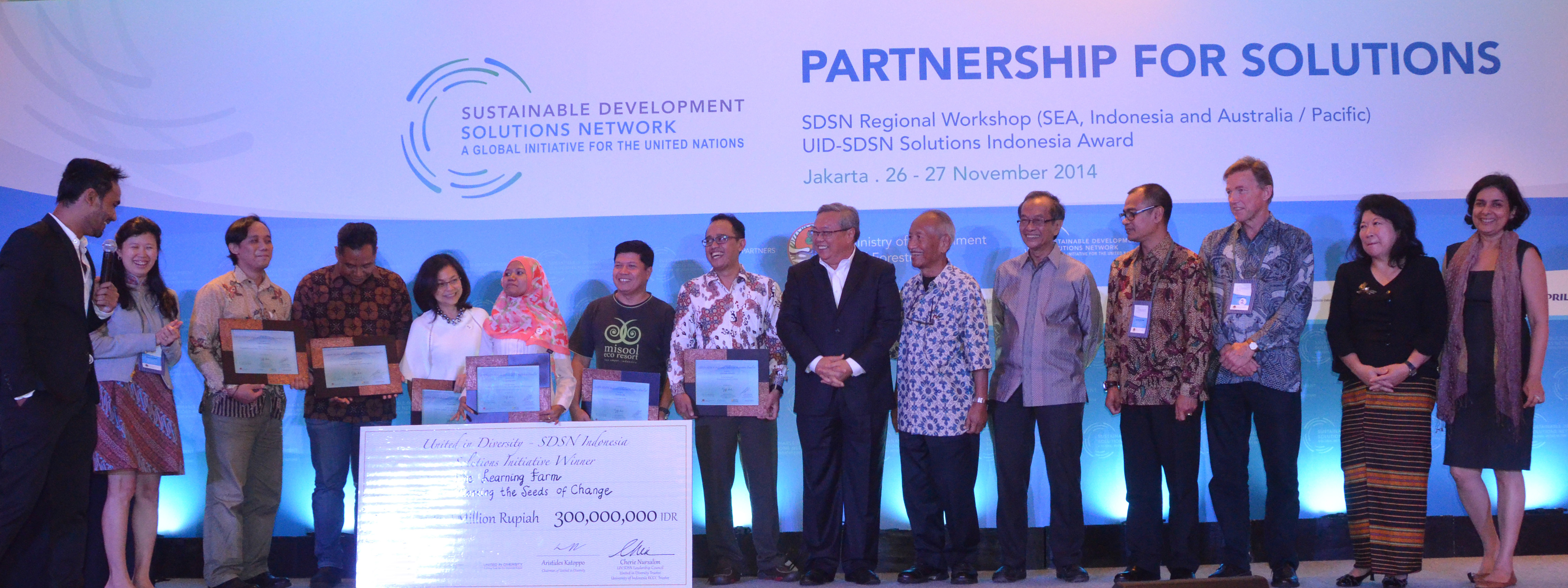 2014 UID-SDSN Indonesia Solutions Initiative Finalists and the winner is "The Learning Farm" for their inspiring work "Planting the Seeds of Change"